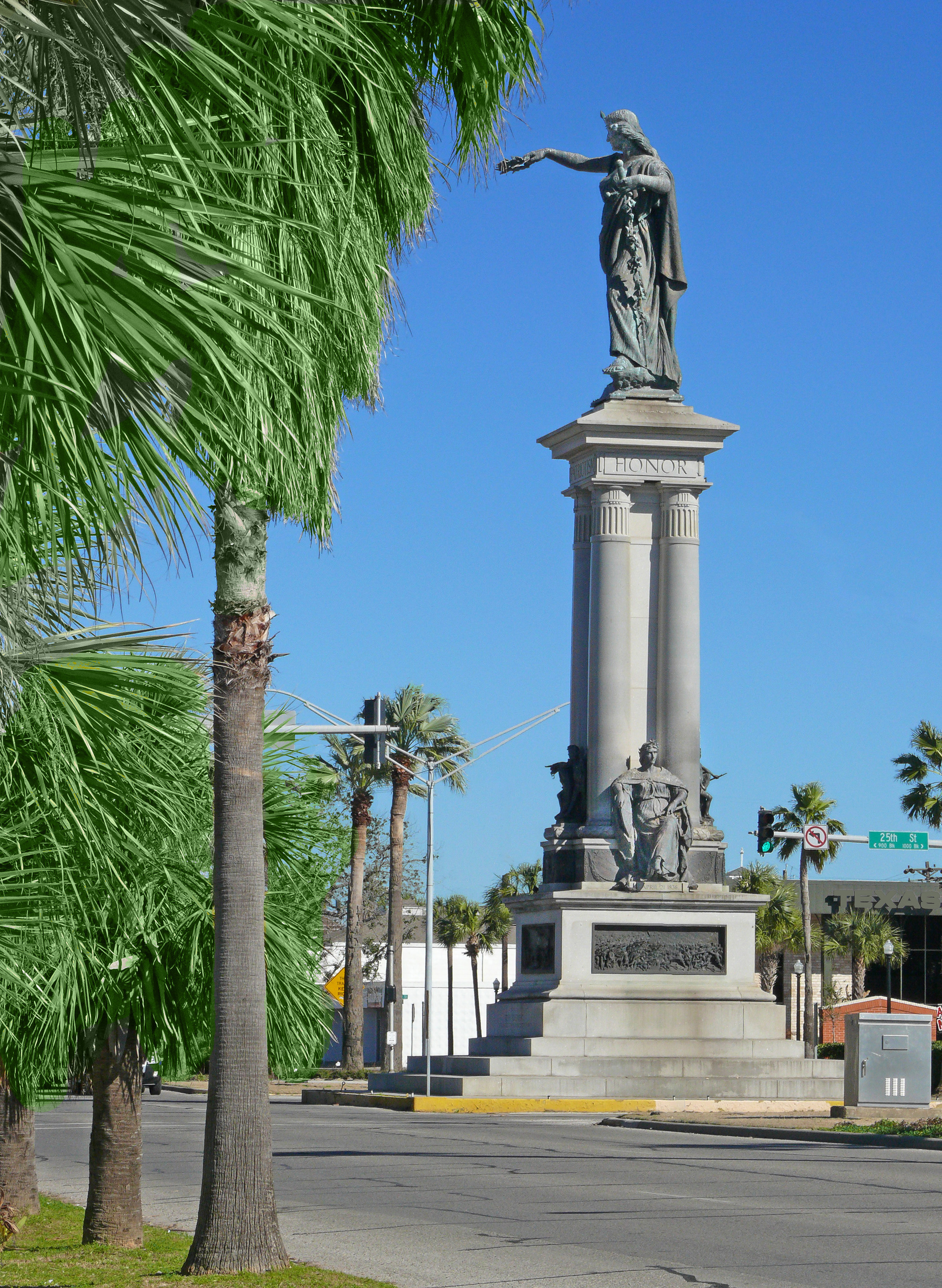 .Henry Rosenberg contributed this statue to the citizens of Galveston. It was a memorial to the Heroes of the Texas Revolution. A dedication ceremony on San Jacinto Day, April 21st, 1900 and featured a parade and ceremonies attended by Governer Joseph D. Sayers. The monument was created by Italian sculptor Louis Amateis. It is made of bronze and granite and features the female form of Victory holding a laurel wreath in an outstretched arm pointing to the San Jacinto Battleground across the bay, where Sam Houston defeated Santa Anna winning independence for the Republic of Texas.